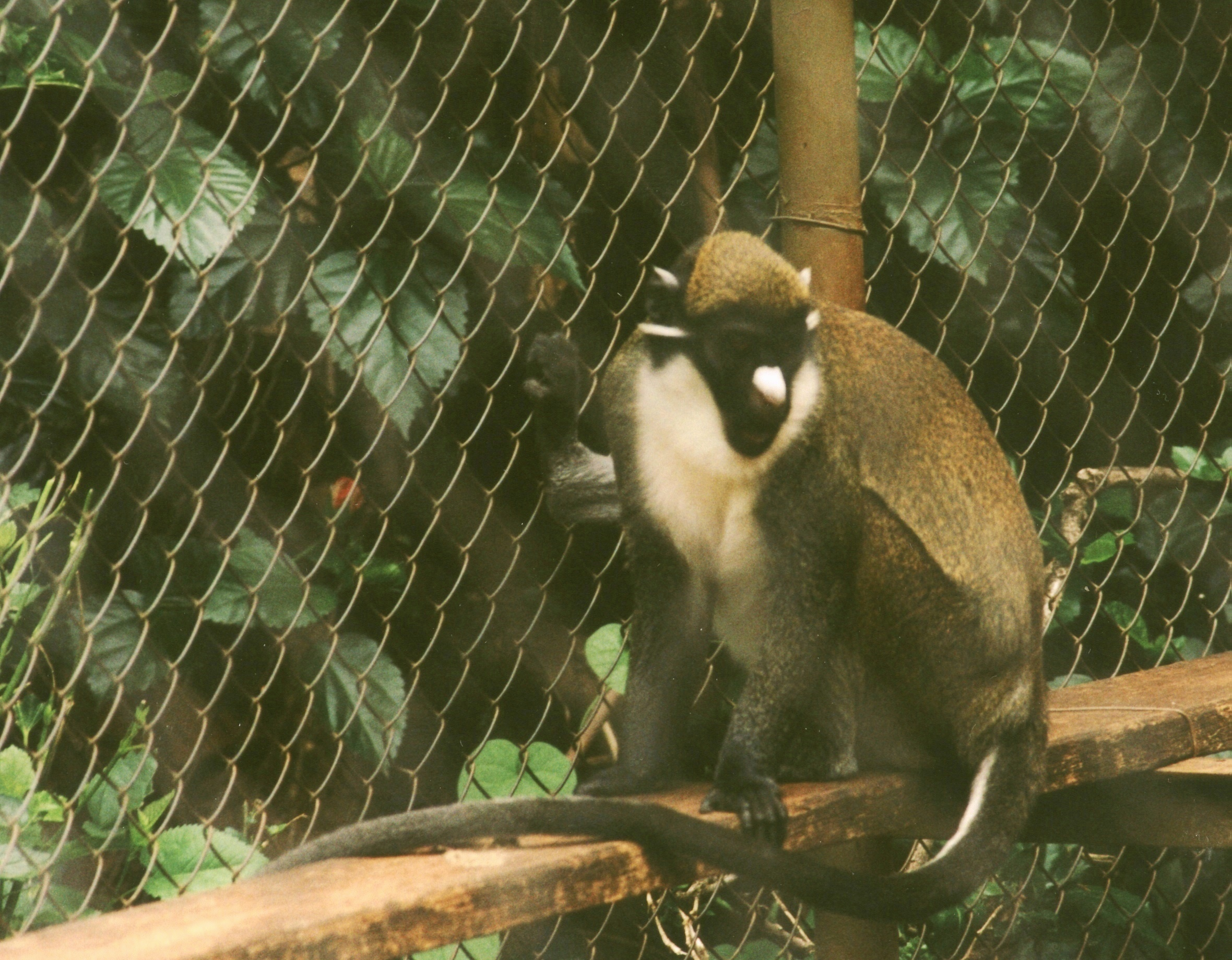 Lesser Spot-nosed Monkey (Cercocebus petaurista) at Pretoria Zoo